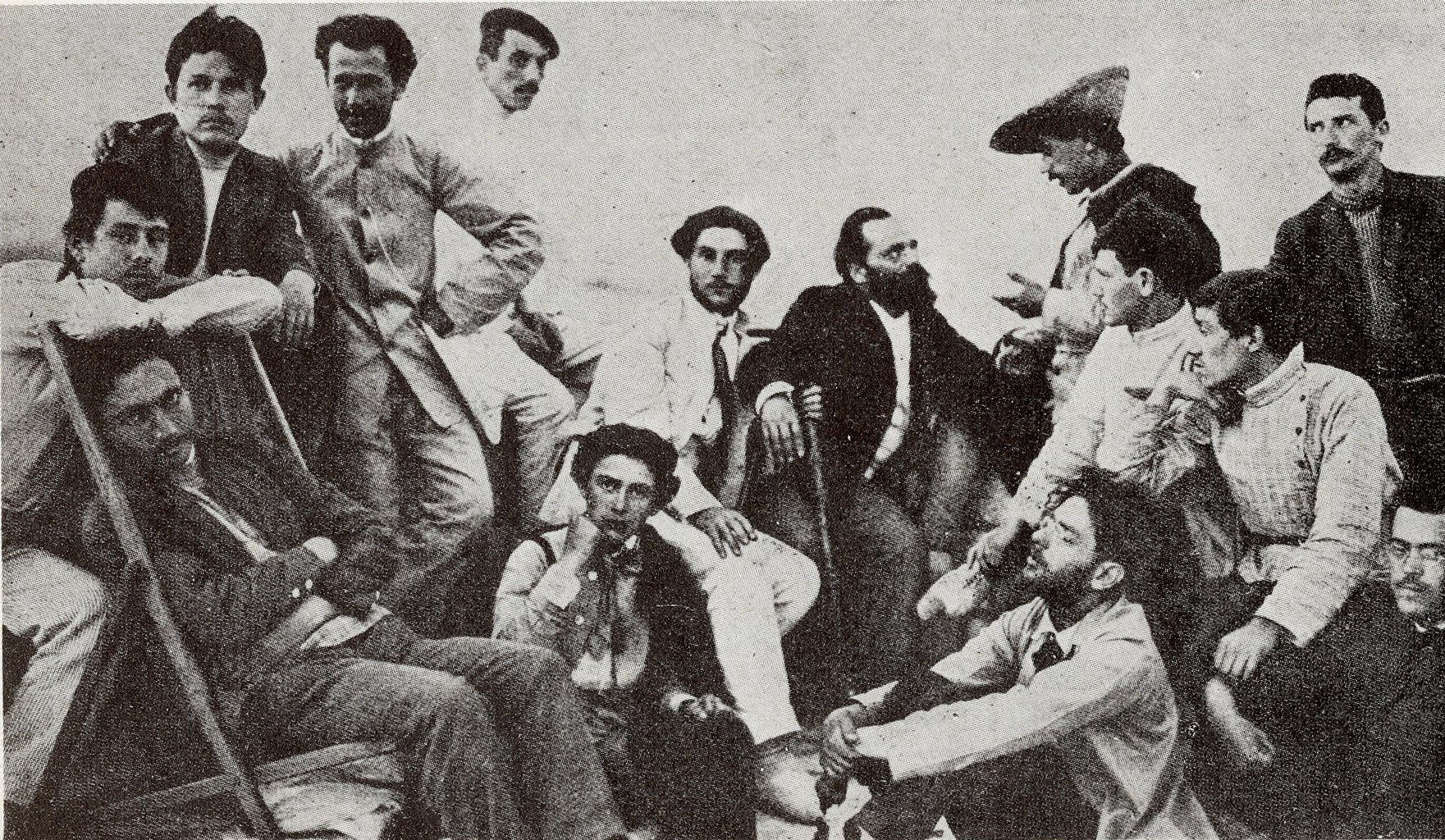 בוריס שץ ןתלמידי הכיתה העליונה (1906). מימין לשמאל: שטרק (עומד), אלהר רובין (יושב בצדודית), קנטרוביץ (יושב לידו), שץ, ציפרוביץ (יושב), שמואל לוי (עומד עם יד על המותן) בן-דוד (יושב בכיסא. אוסף מוזיאון ישראל.